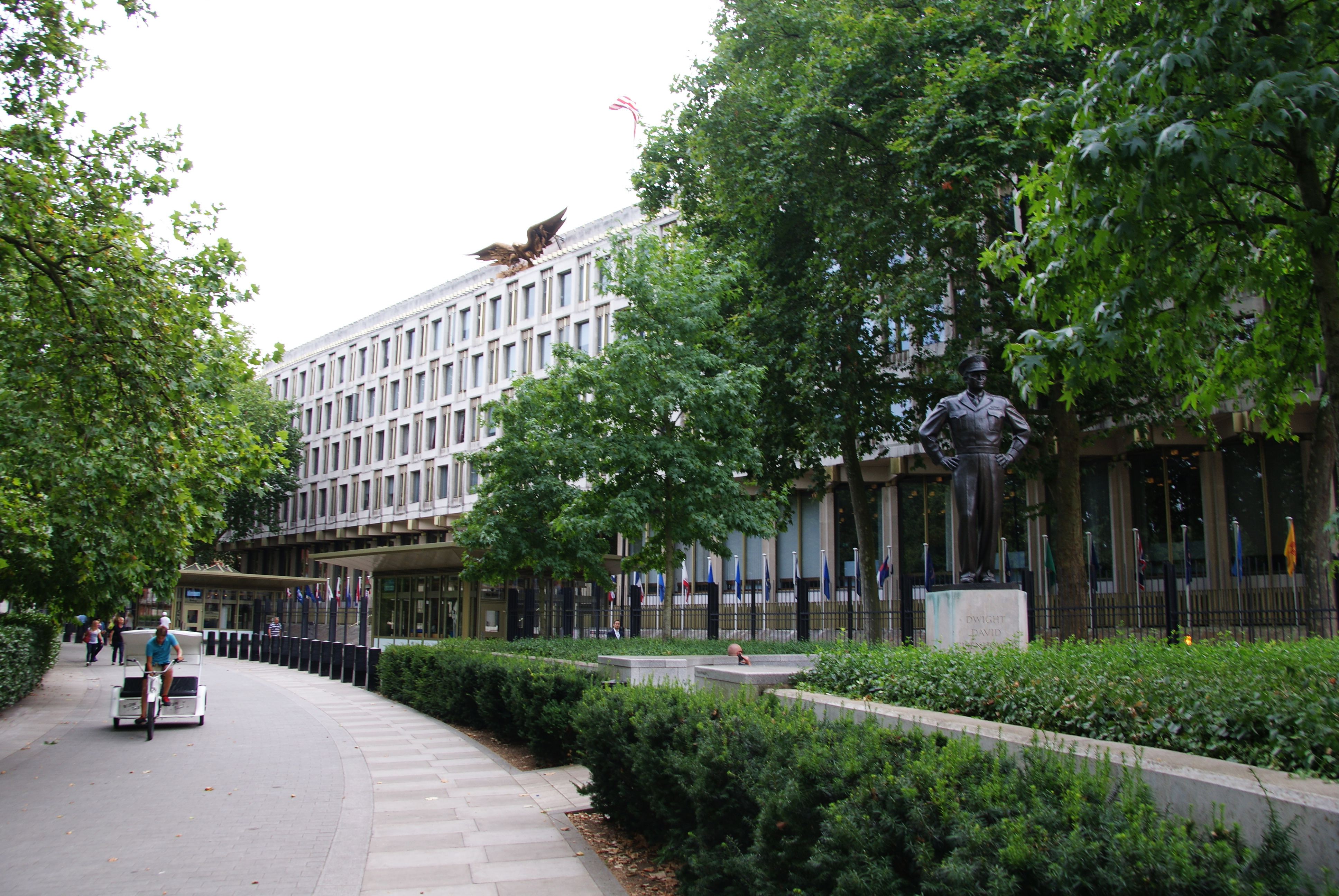 The US Embassy